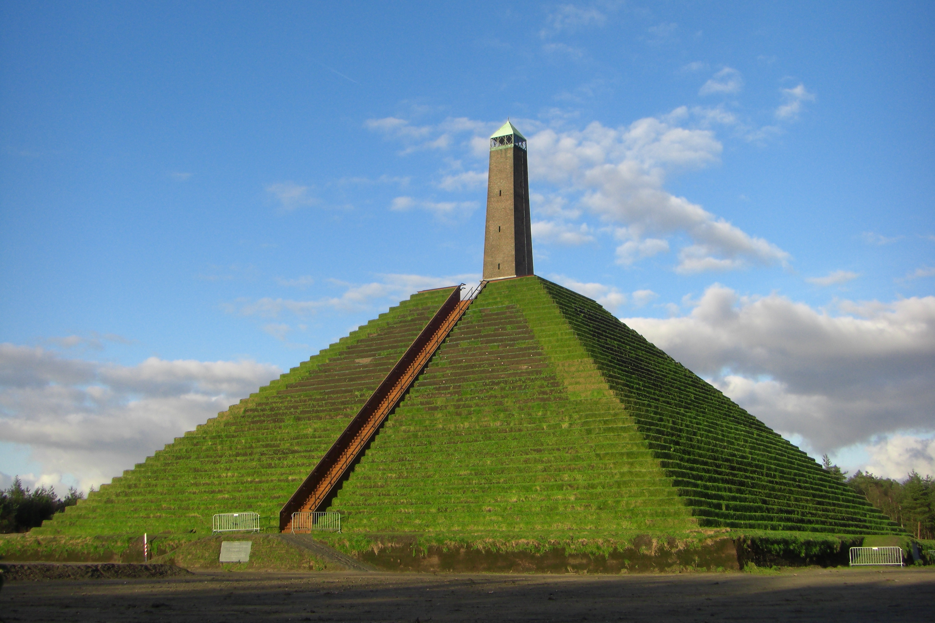 The Pyramid of Austerlitz (NL) in December 2008, shortly before the end of its restoration.